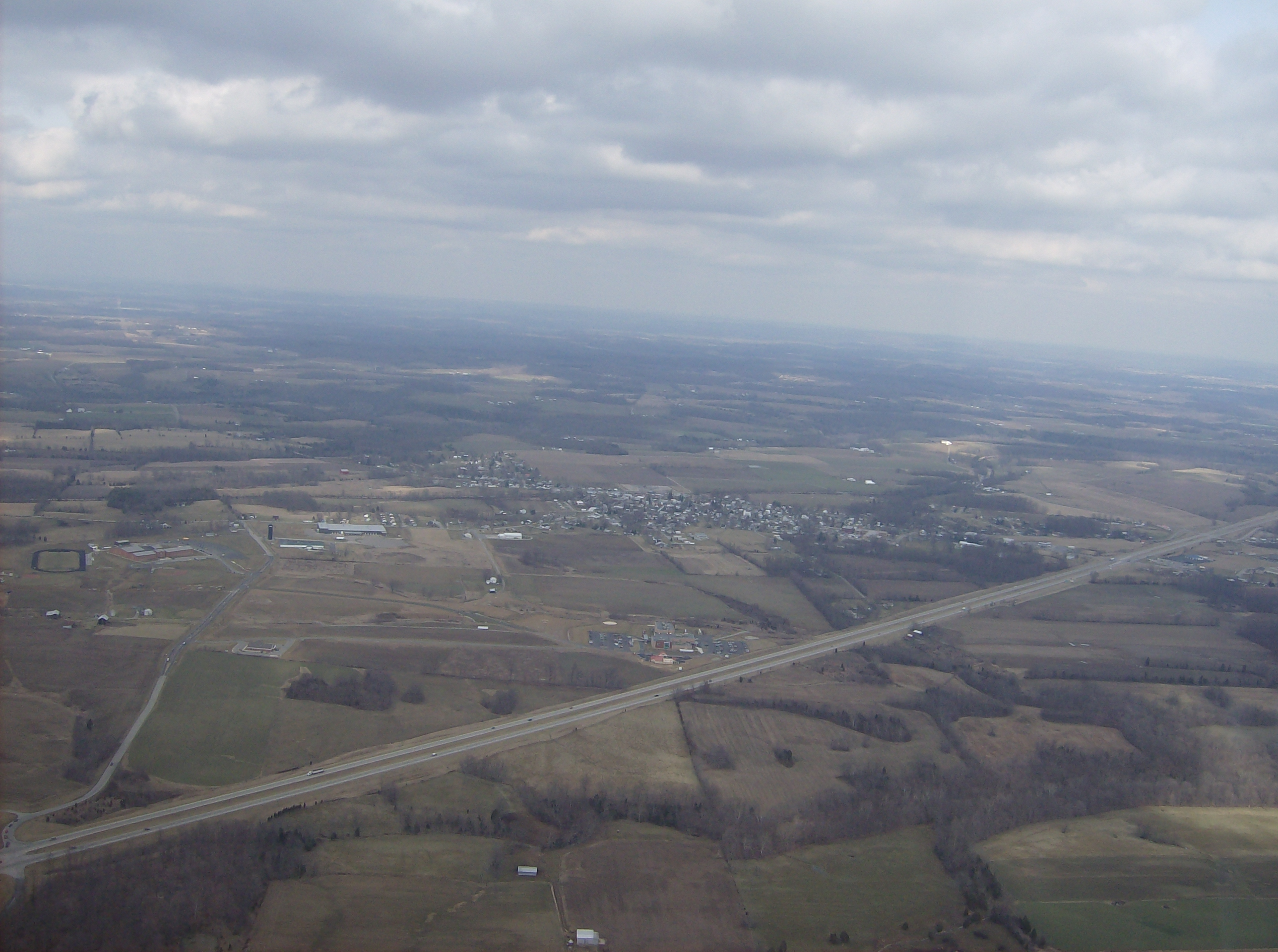 Aerial view of Seaman in southwestern Scott Township, Adams County, Ohio, United States. Picture taken from a Diamond Eclipse light airplane at an altitude of 2,550 feet MSL and a bearing of approximately 16º.